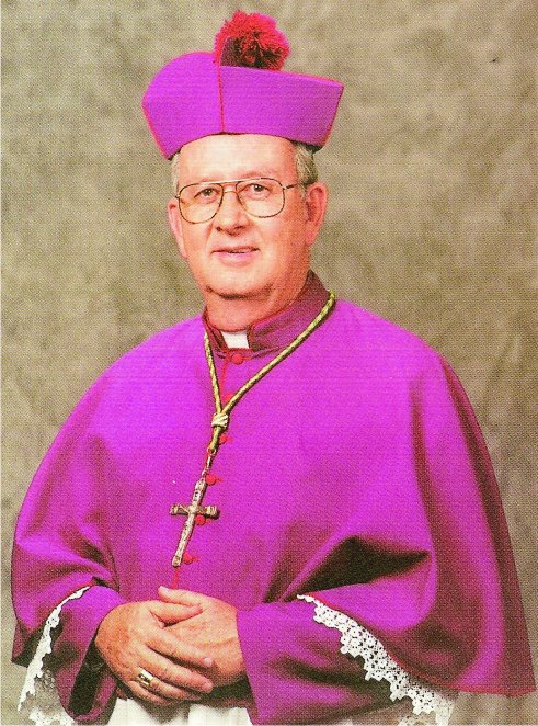 Monseñor Arturo de Jesús Correa Toro